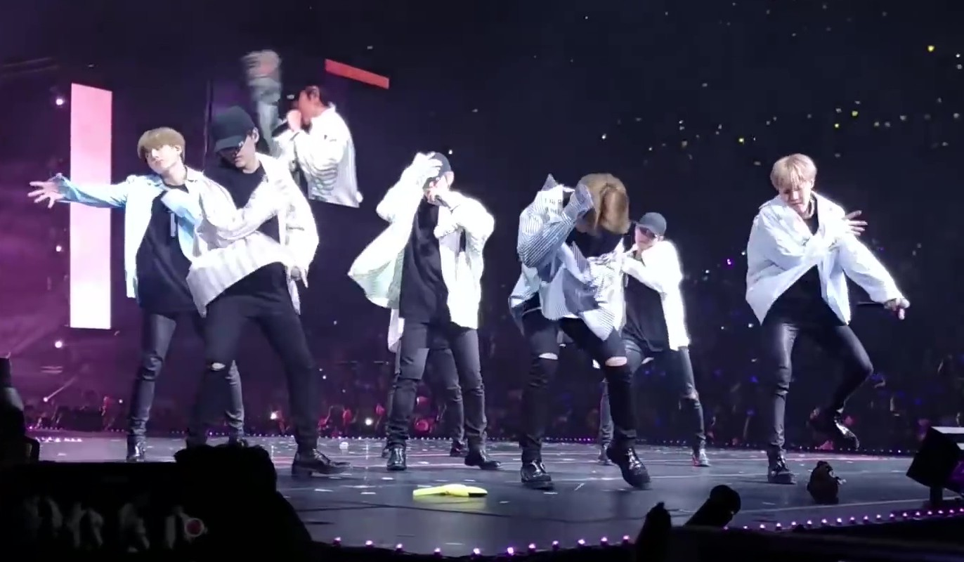 BTS performing "Spring Day" during the BTS Live Trilogy Episode III The Wings Tour in Anaheim, 2 April 2017